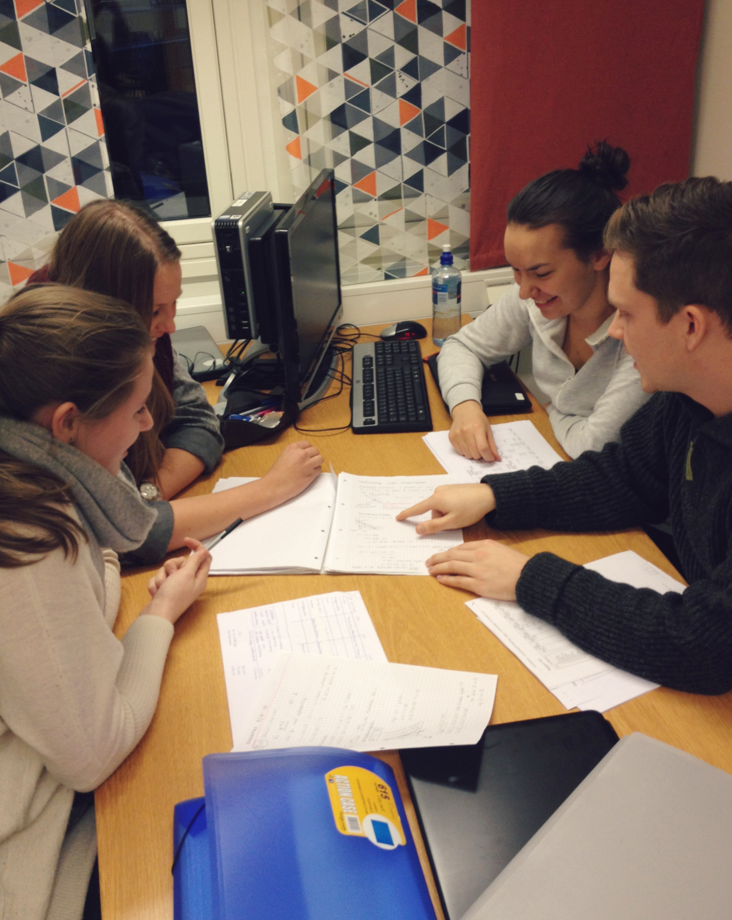 Group work and discussion of subject matter are good ways to share knowledge.